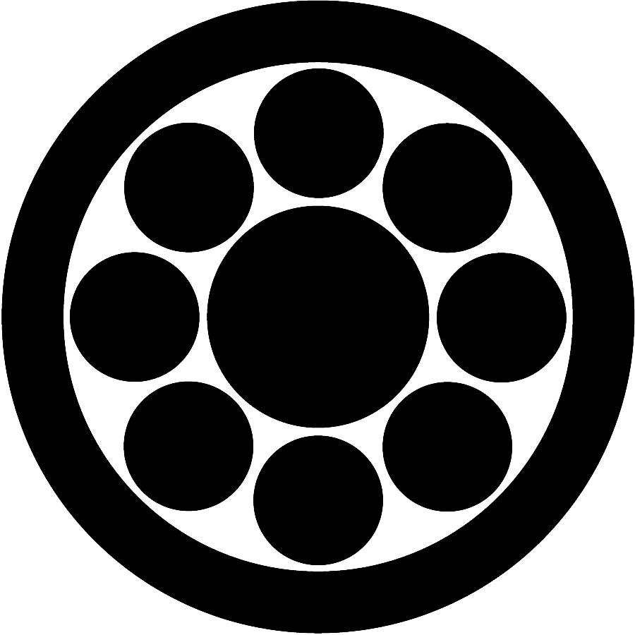 Mr. Mochizuki, Mr. Hosokawa and Mr. Sakuma, Chiba's crest